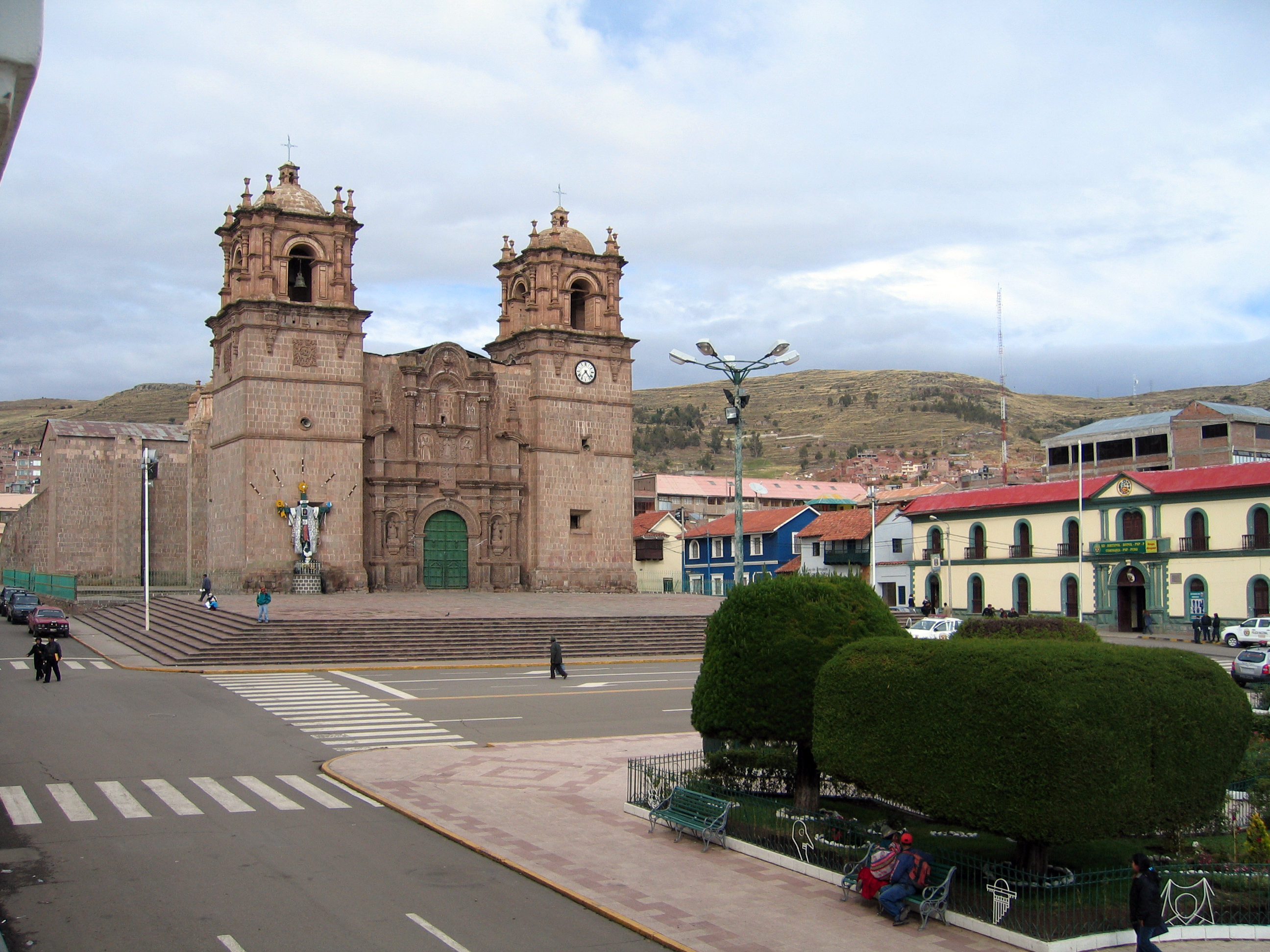 Cathedral of Puno, Peru